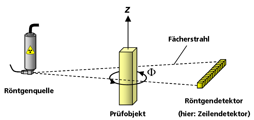 Schematic representation of a 2D Computed Tomography